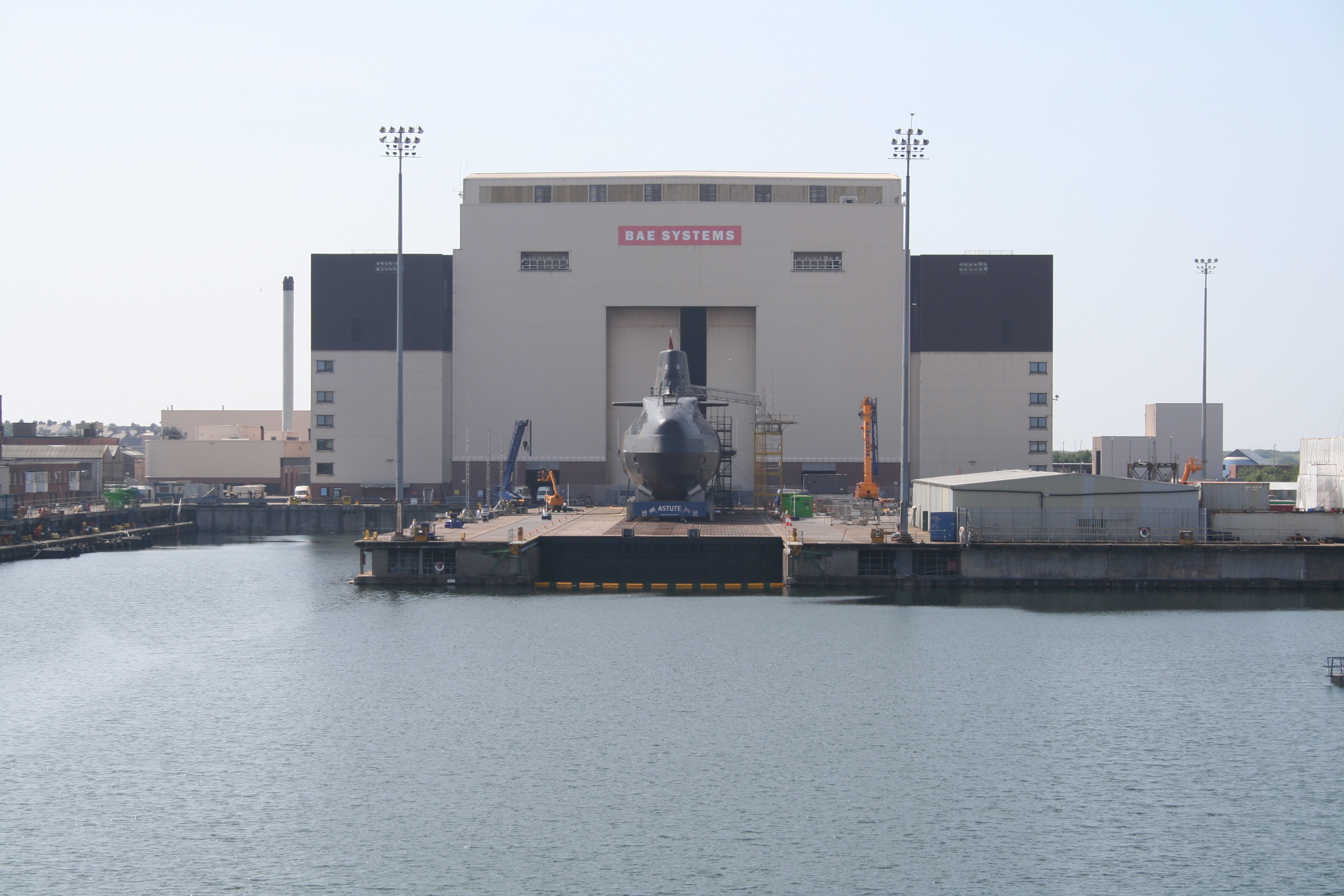 Astute on the DDH shiplift after launch